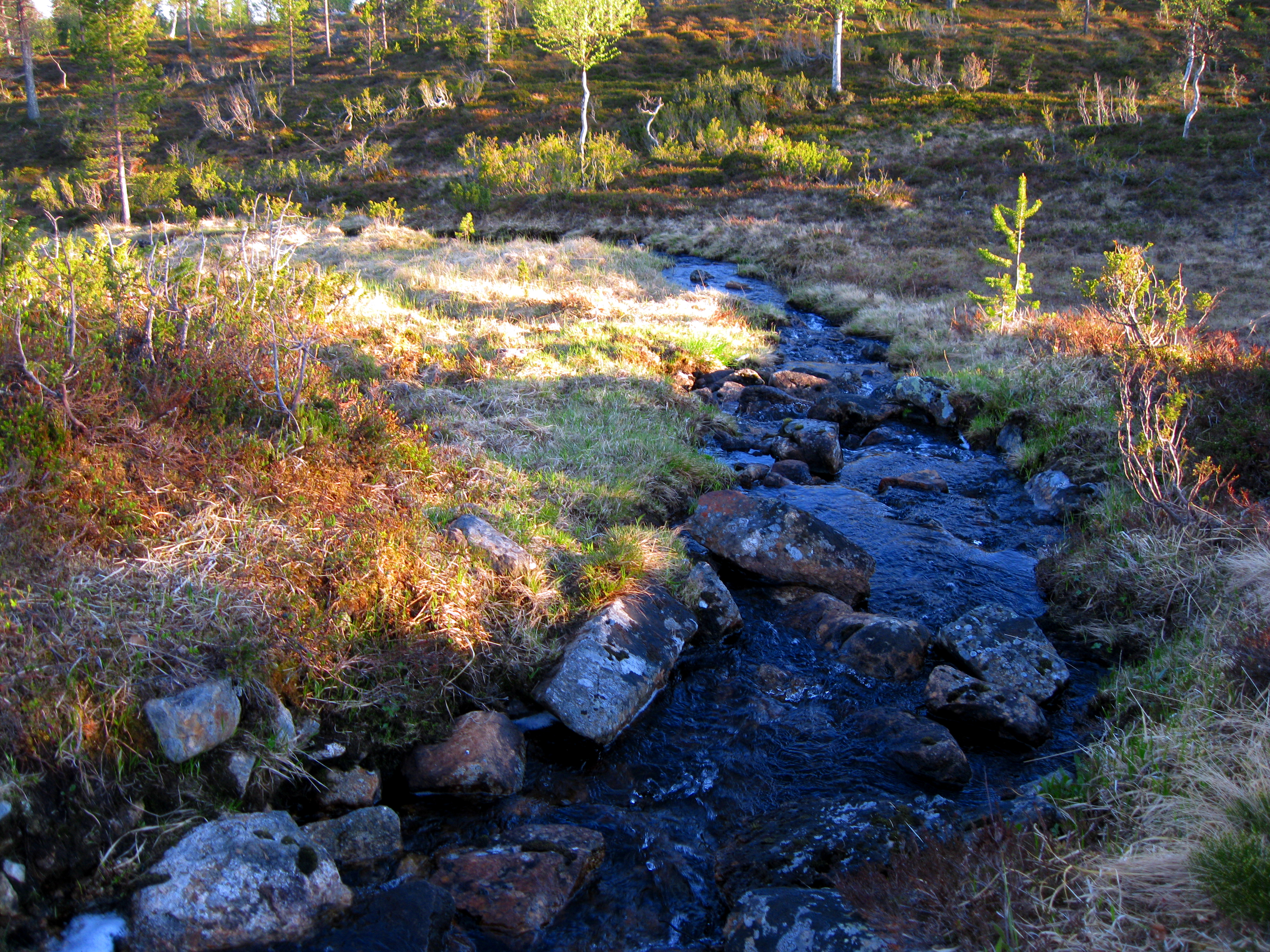 Little stream in Tsarmitunturi Wilderness Area, Lapland, Finland.